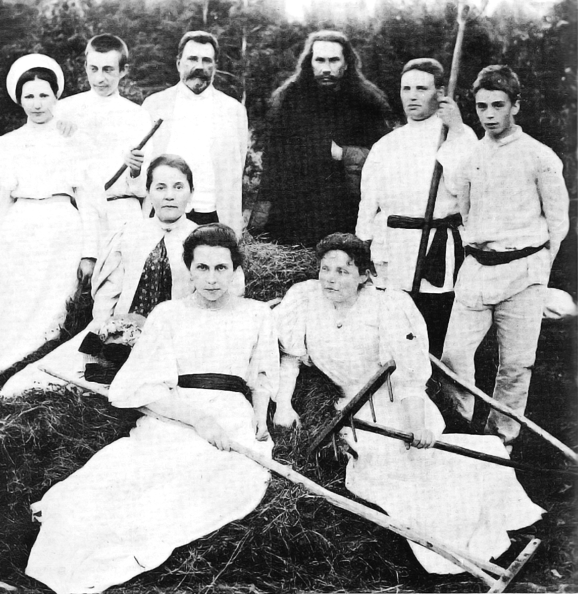 Rachmaninoff at Ivanovka, mid 1890s. (standing, L to R) Sofiya Satina, Rachmaninoff, Alexander Satin, Father Nikolay, Yuly Kreytser, and Mikhail Bakunin (seated, L to R) Varvara Satina, Natalya Satina, Elena Kreytser (Note: Satina is the feminine version of the surname Satin; Alexander is in the same family as the three women)